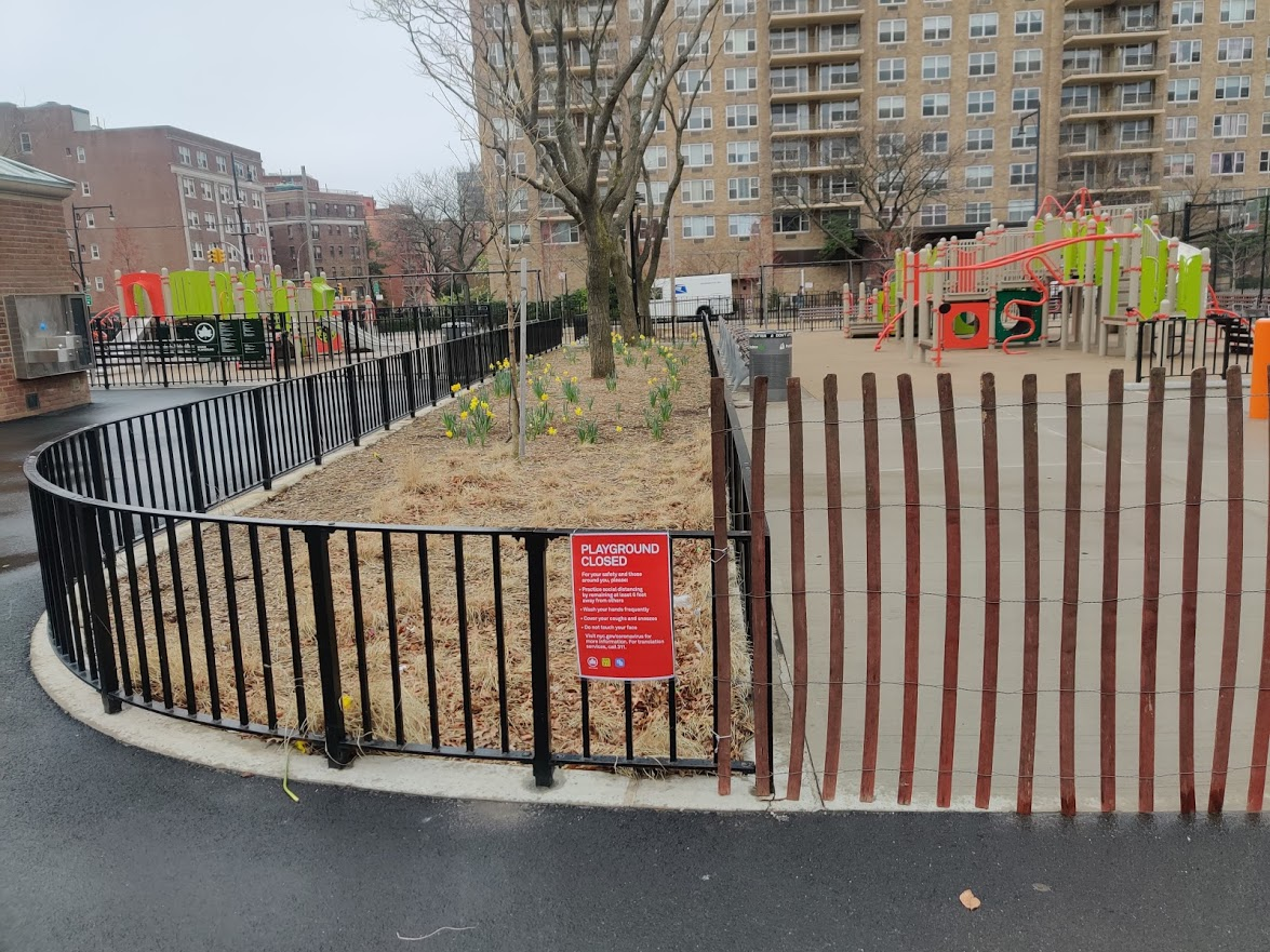 Bowne Playground in Queens, New York City closed due to the 2019-2020 COVID-19 pandemic